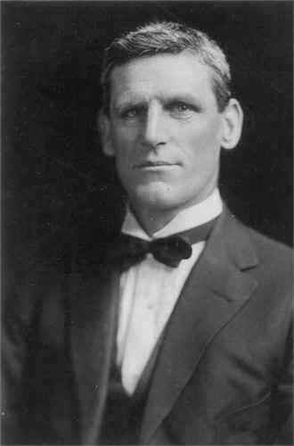 Sydney George Smith, son of Edward Metcalf Smith and husband of Catherine (Kate) Bint.